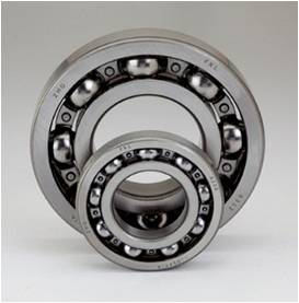 Deep groove ball bearings are particularly versatile. They are simple in design, non-separable, suitable for high and very high speeds and are robust in operation, requiring little maintenance. These bearings are the most common type and are used in a wide variety of applications. Not only are they capable of supporting radial loads but also moderate axial loads in either direction. Due to their low torque, they are suitable for applications where high speed and low power loss is required. They are easy to mount and suitable for many different configurations. They utilize an uninterrupted raceway that makes them optimal for radial loads .This design permits precision tolerance, even at high-speed operation.